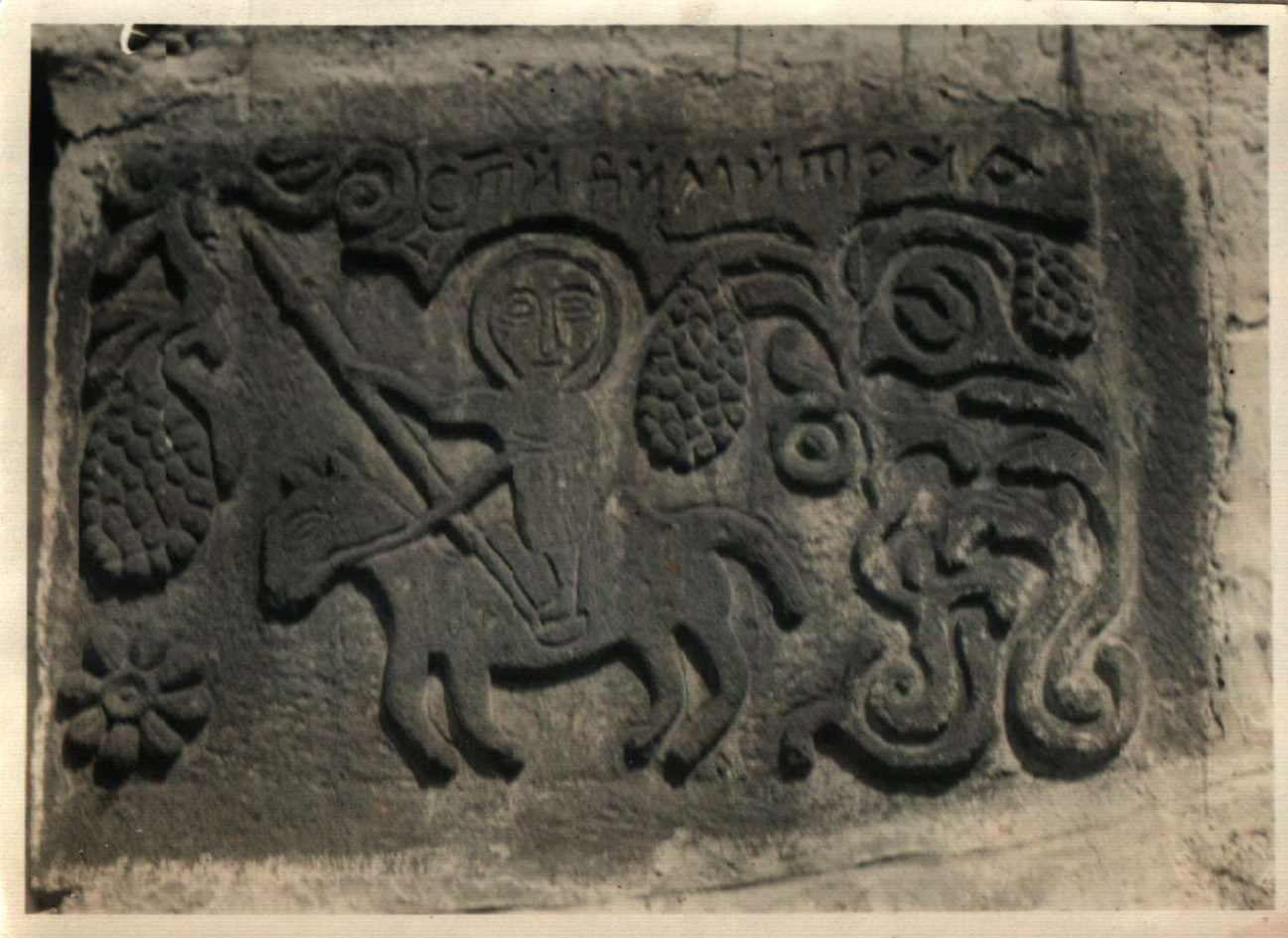 Nedelishte monastery, Bulgaria